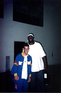 Professional basketball player Harold Jamison (right) posing with a fan after a 2002 Summer Pro League game (in which he played) at The Pyramid in Long Beach, California.